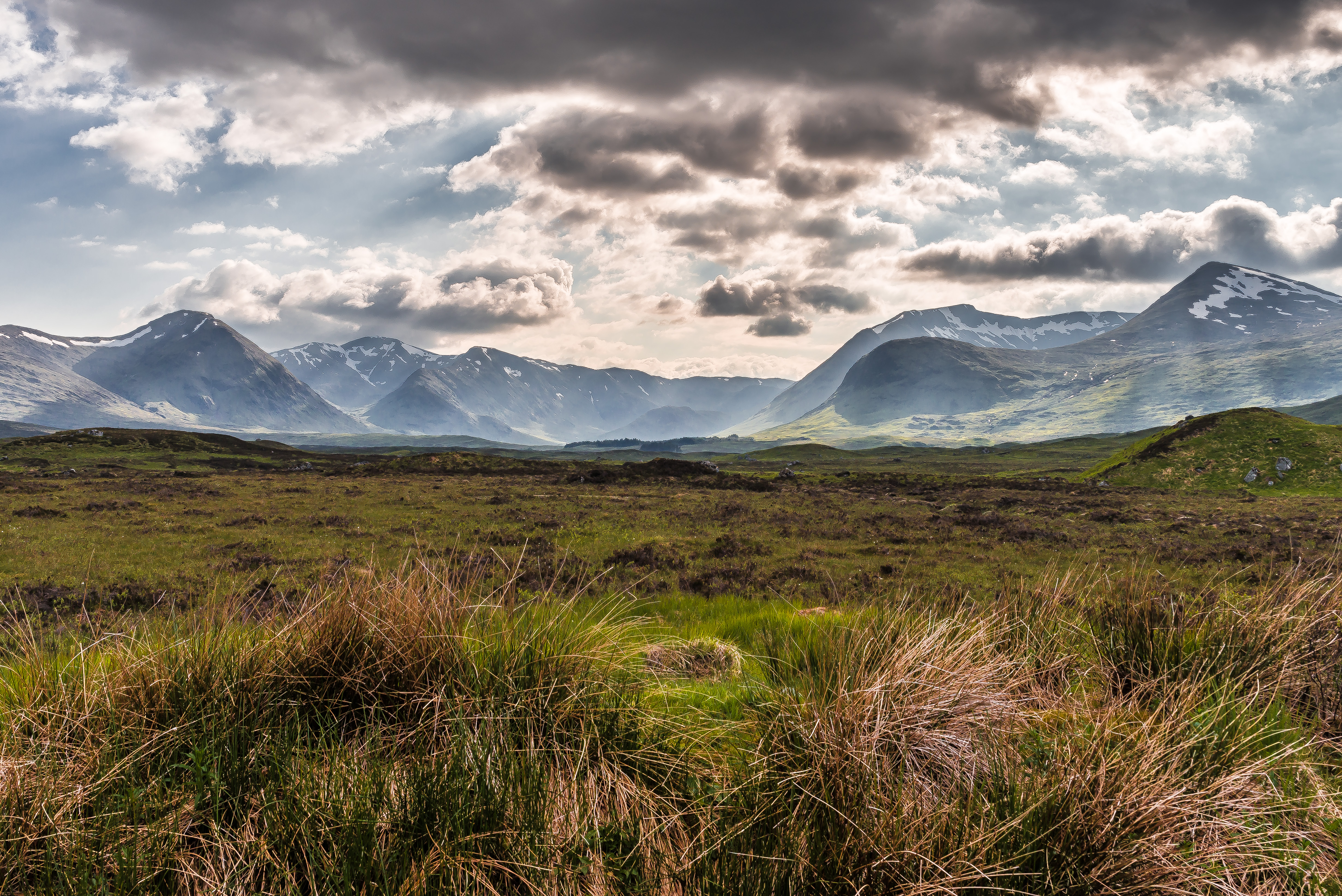 Another from my little Highlands jaunt. I loved the way the light and clouds were working here.